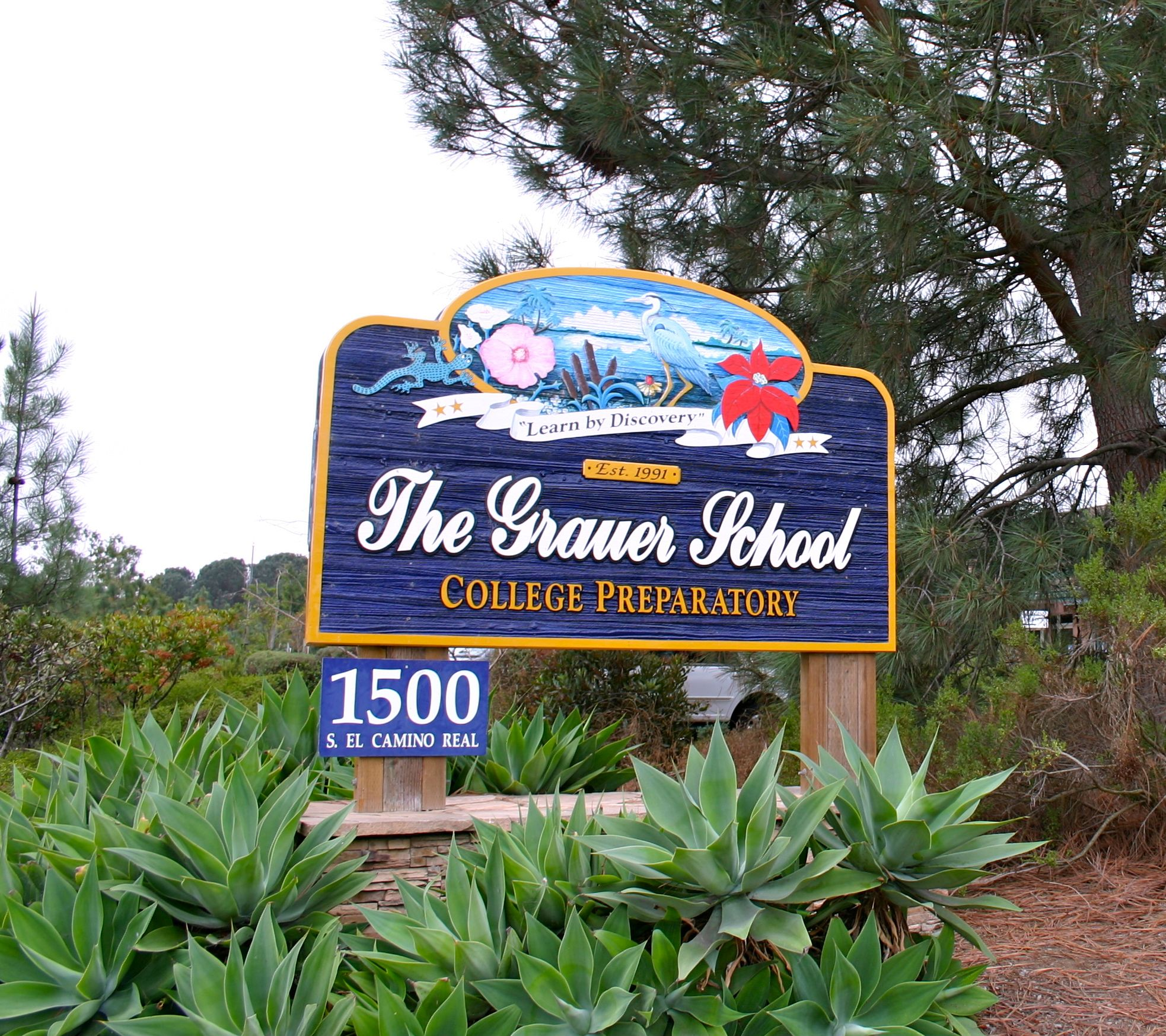 Signboard outside :en:Grauer School} Object location33° 01′ 44.21″ N, 117° 15′ 20.72″ W